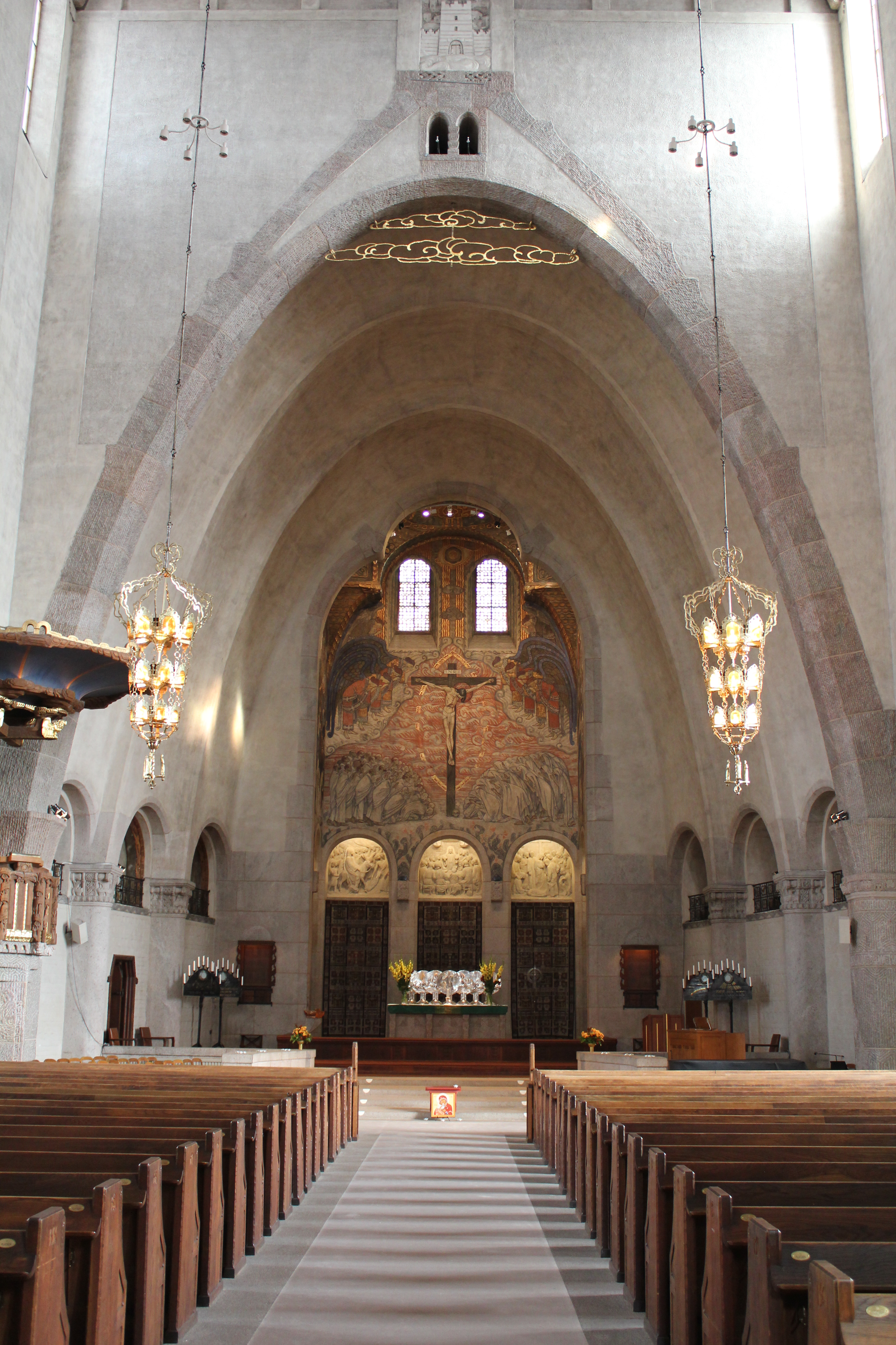 Engelbrekt Church in Stockholm, Sweden. Interior facing altar.